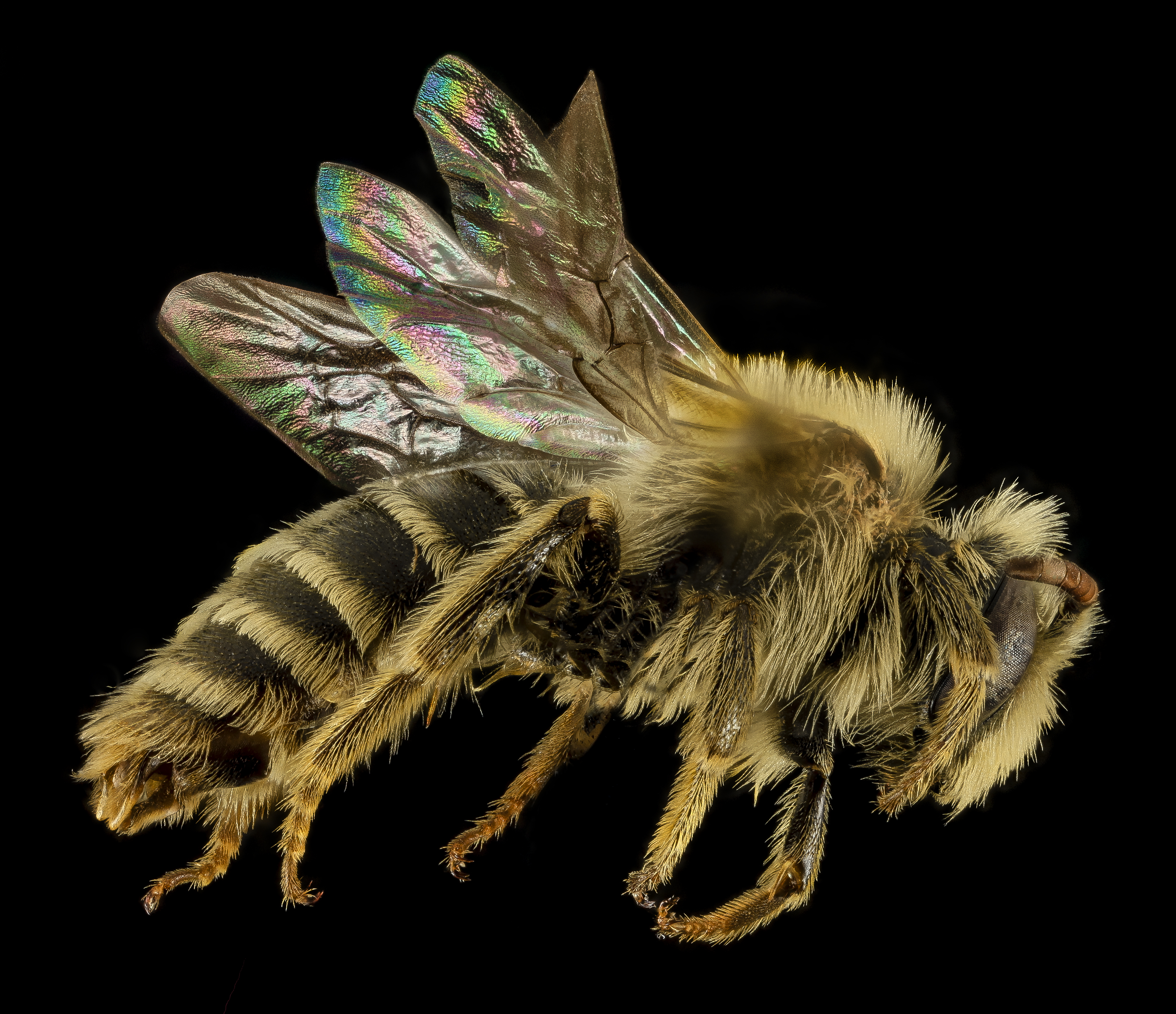 An often uncommon spring Andrena, I associate with the Appalachians, this is a male with a sweet yellow clypeus. Collected by MaLisa Spring near Marietta, Ohio. Photograph by Brooke Alexander. Canon Mark II 5D, Zerene Stacker, Stackshot Sled, 65mm Canon MP-E 1-5X macro lens, Twin Macro Flash in Styrofoam Cooler, F5.0, ISO 100, Shutter Speed 200